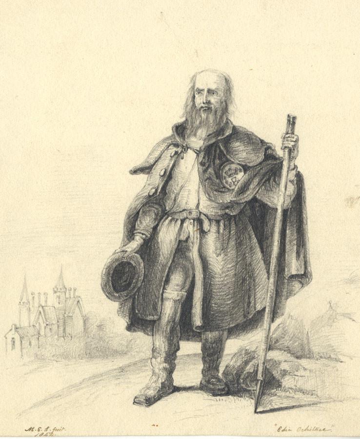 Graphite drawing of Edie Ochiltree, a character in Walter Scott's novel The Antiquary, drawn by Mary E. Sealy in 1844.